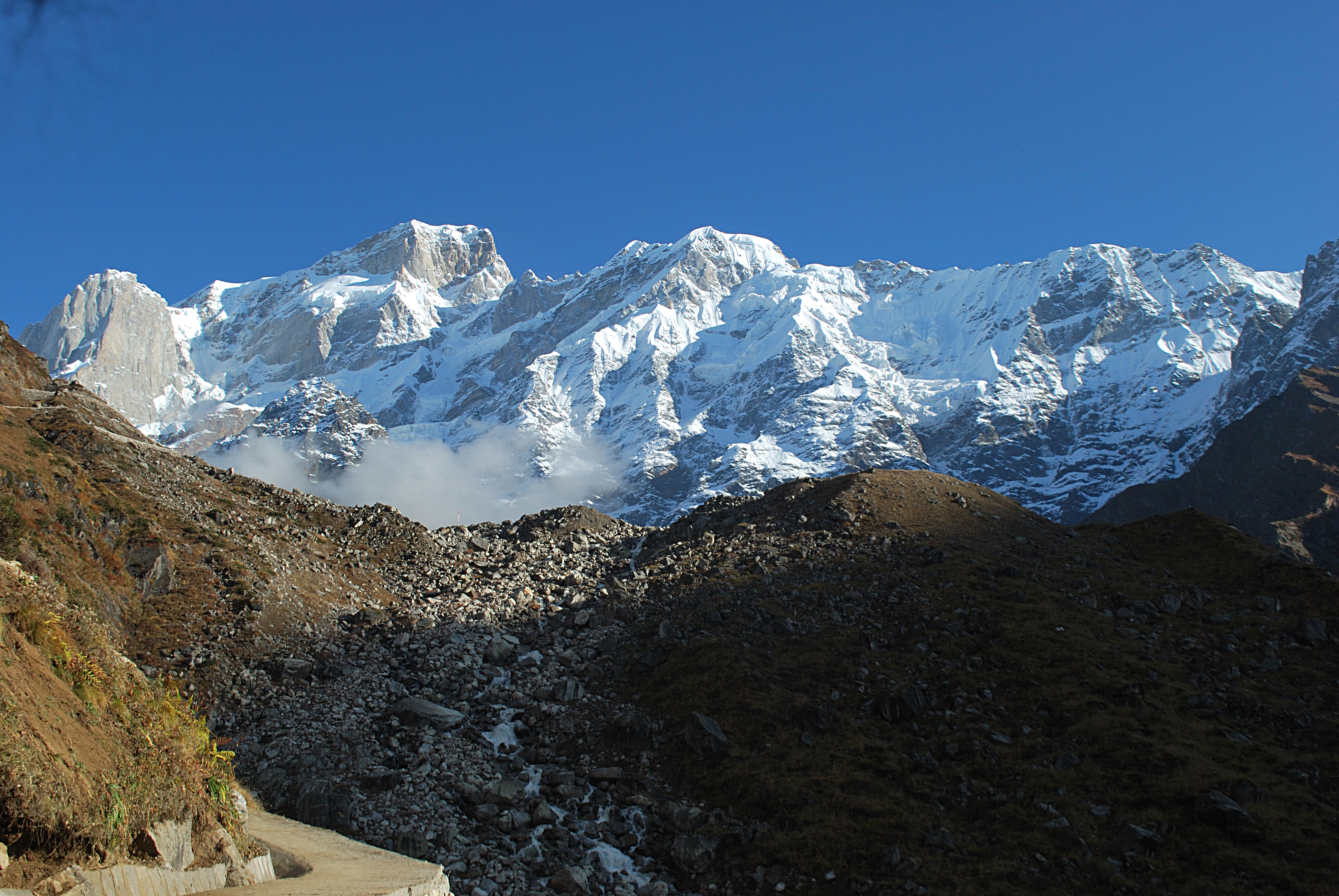 Kedarnath range behind the Kedarnath temple early morning.